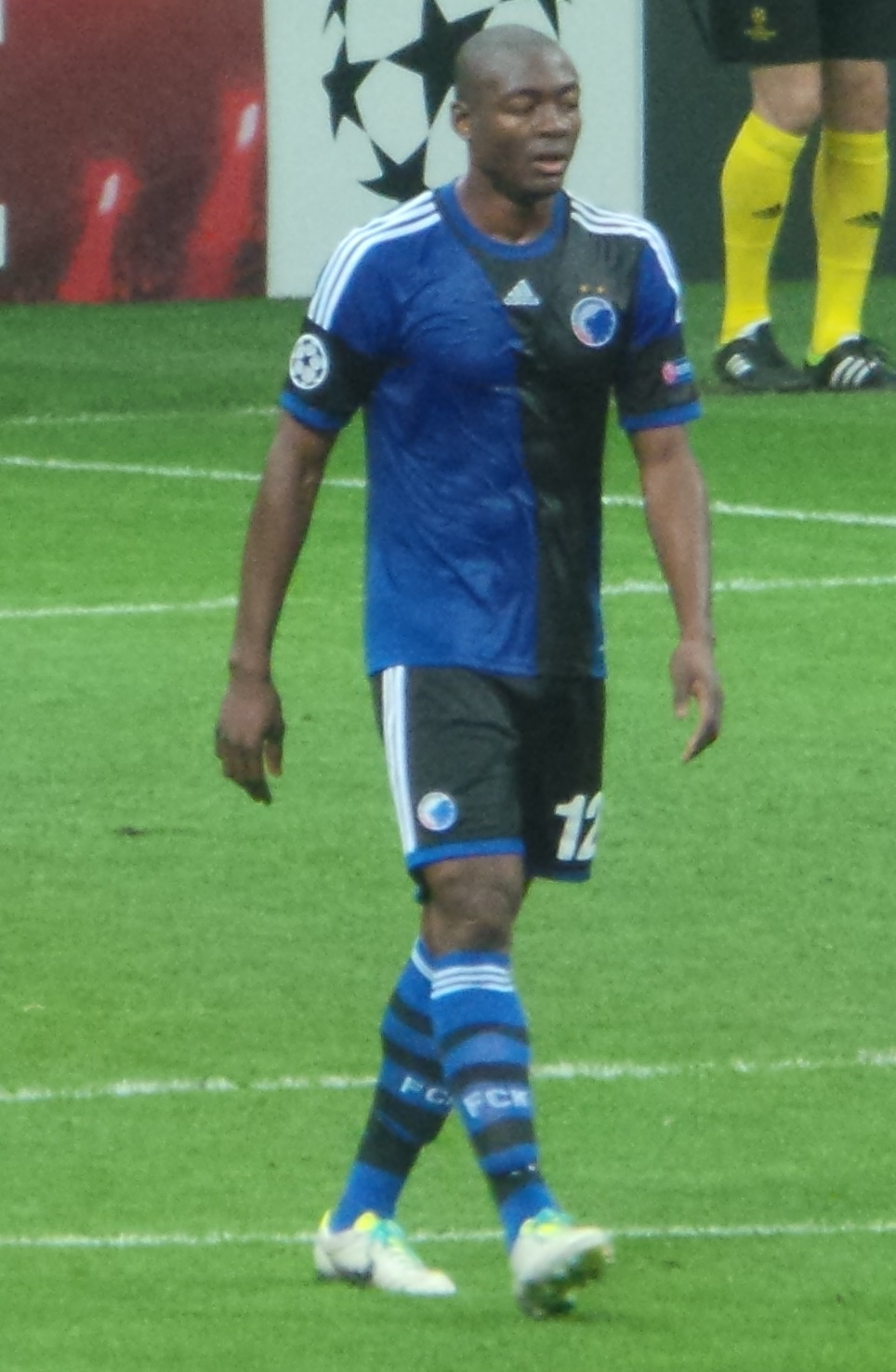 Fanendo Adi